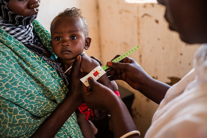 Mid-Upper-Arm Circumference Band